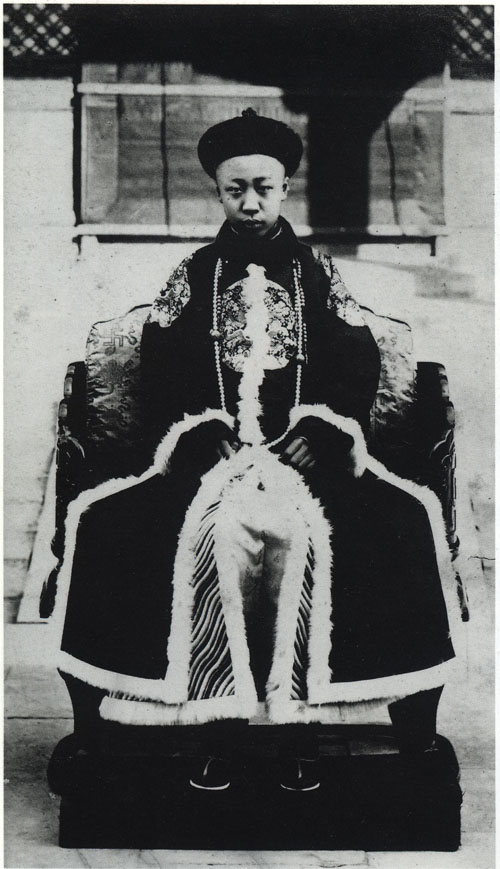 Portrait of Puyi (Xuantong Emperor) (1906-1967)